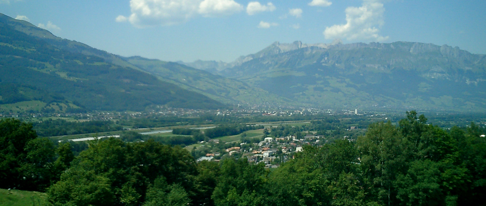 Vaduz, Liechtenstein